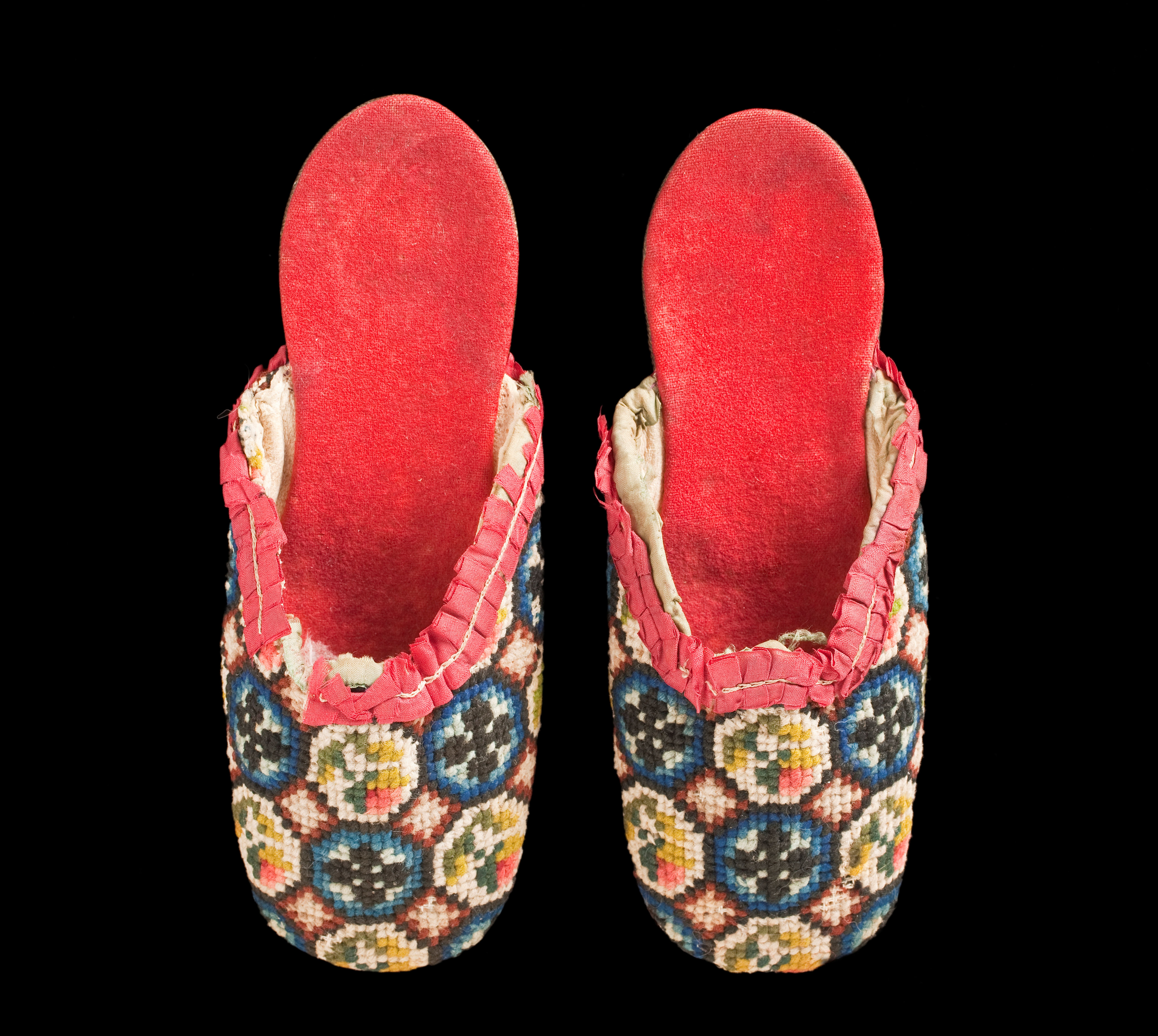 Boy's slippers, 1800-1850. Cotton canvas with wool needlepoint (Berlin work), wool plain weave, silk plain weave, and leather.